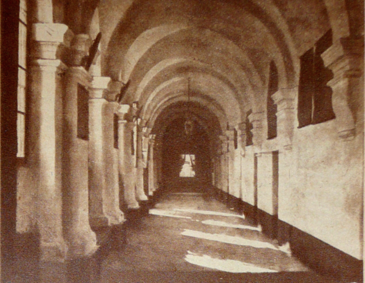 Published circa 1950.